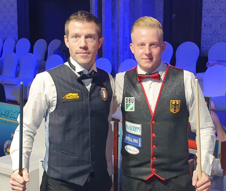 see fiel name